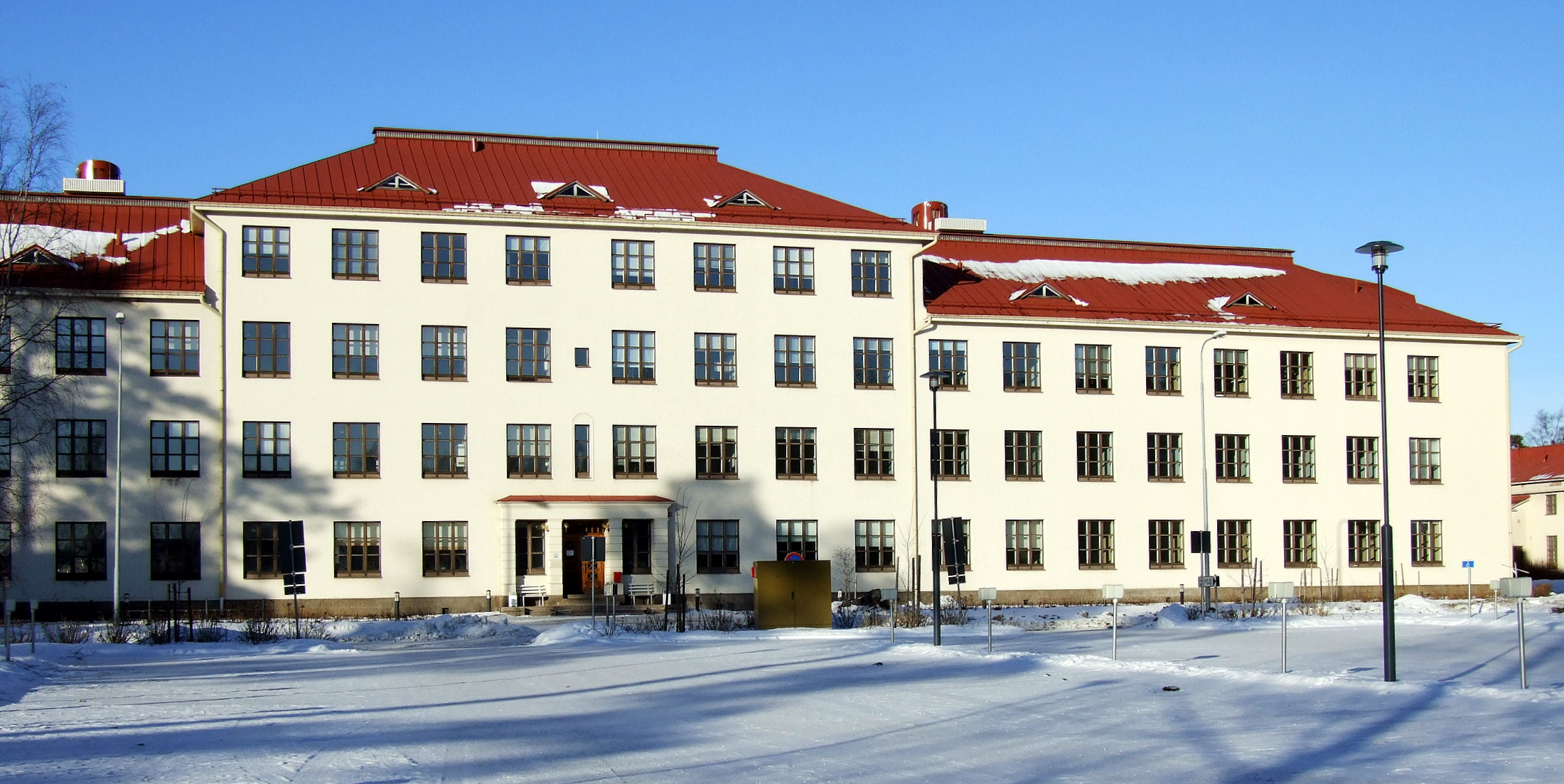 The Department of Psychiatry in Oulu University Hospital, Finland. The building was designed by architect Axel Mörne (1931).